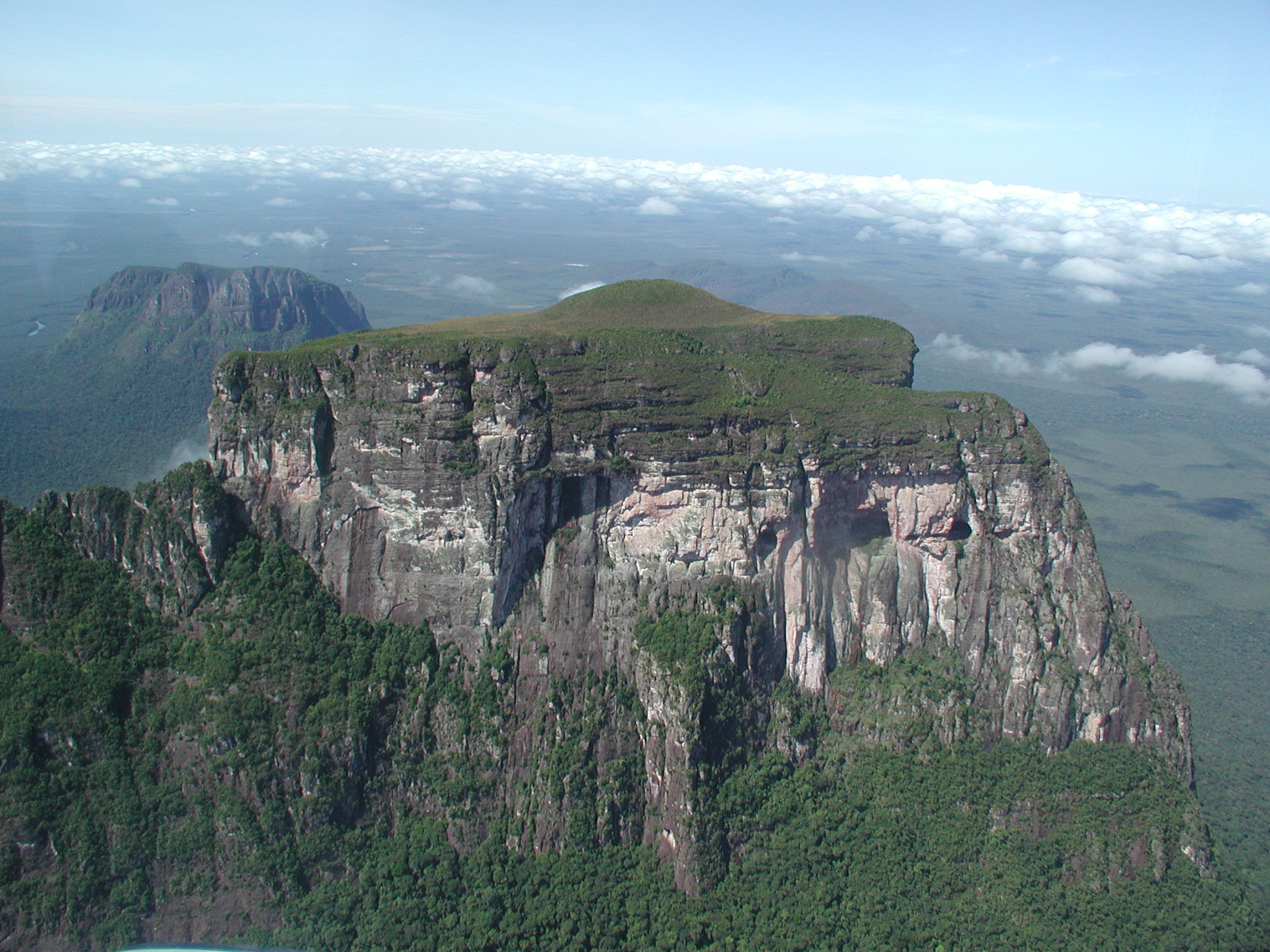 Northern exposure of Cerro Autana showing the entrance to the caves in the right mid section of the mountain.